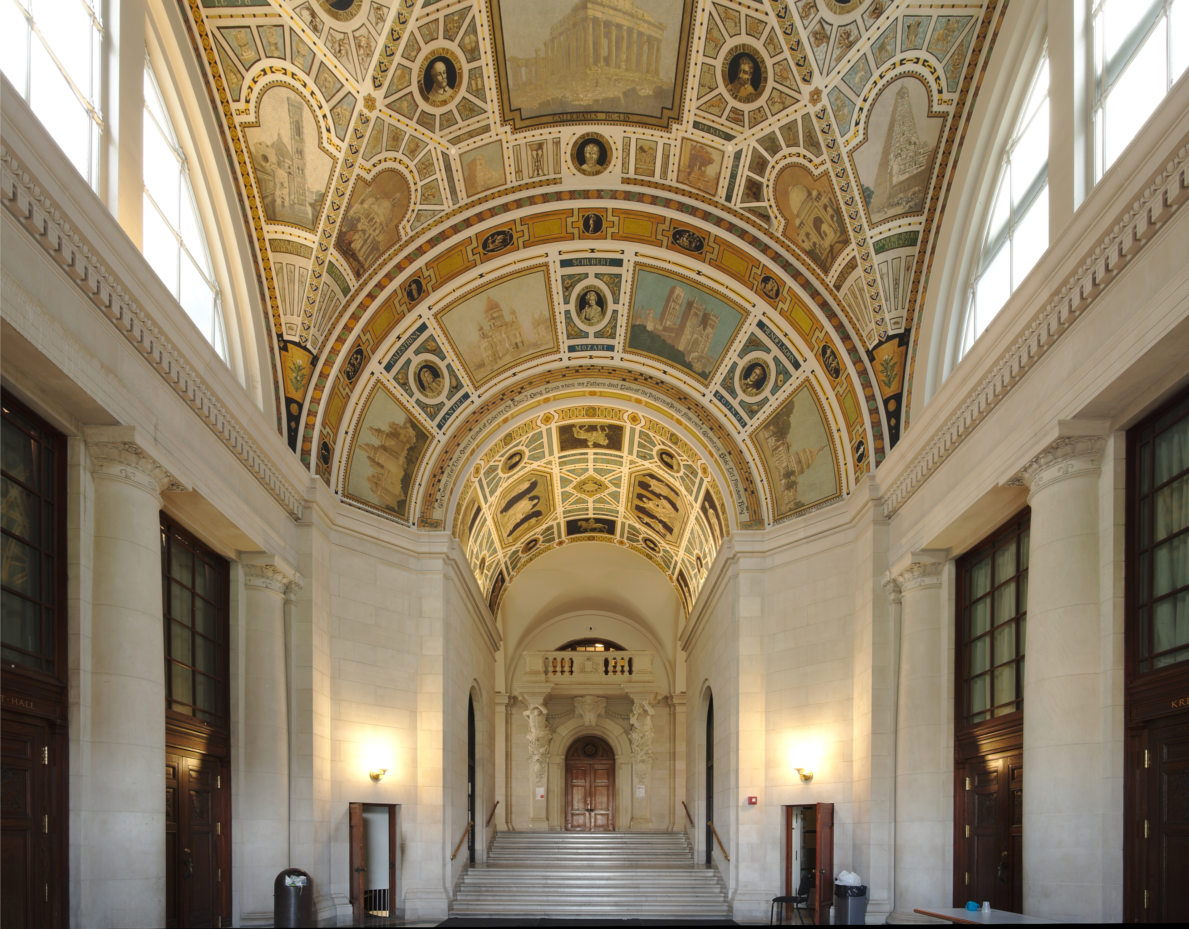 The atrium of the main entrance of the Carnegie Mellon College of Fine Arts. The building was built in 1916.